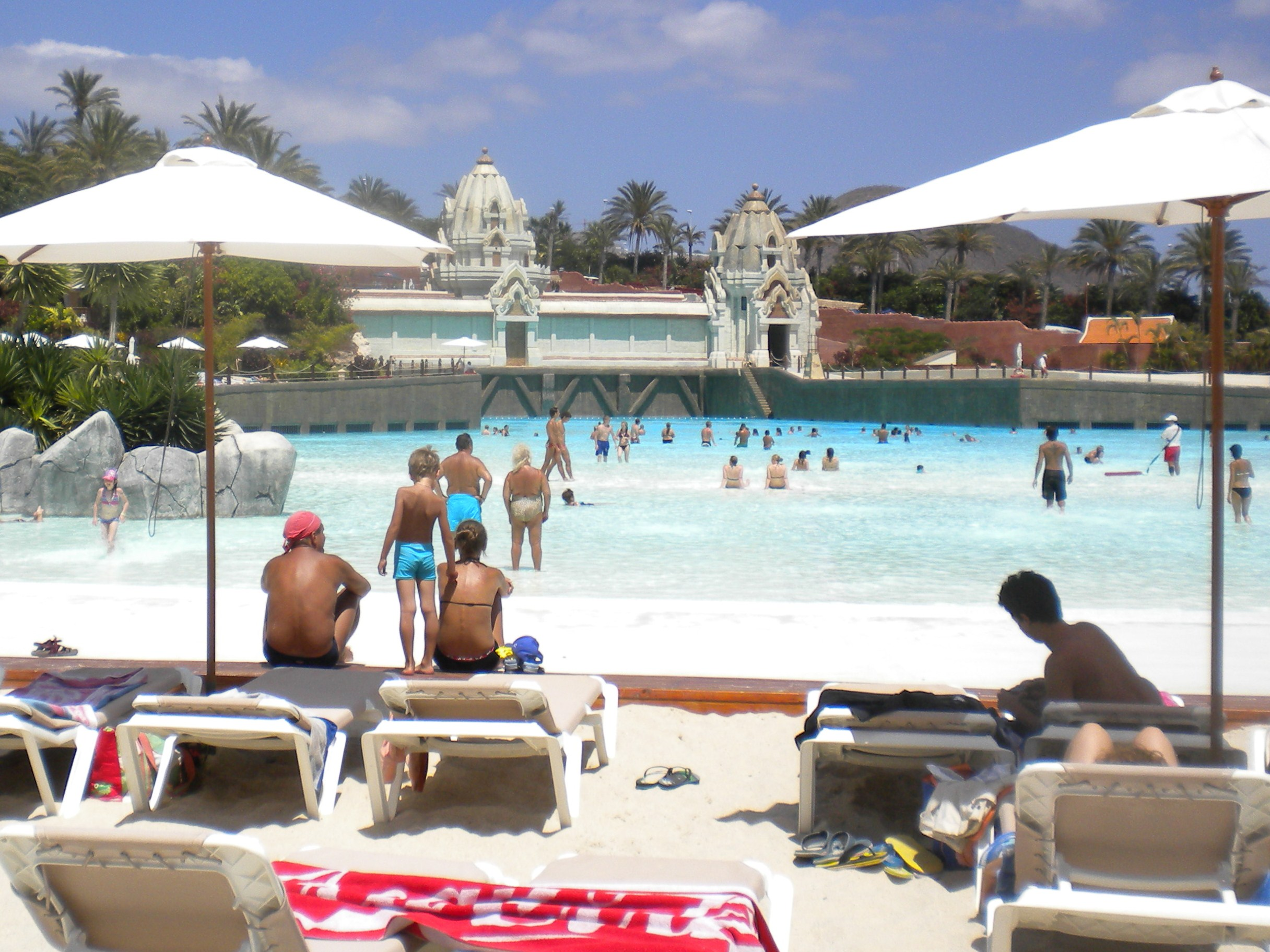 Siam Park.